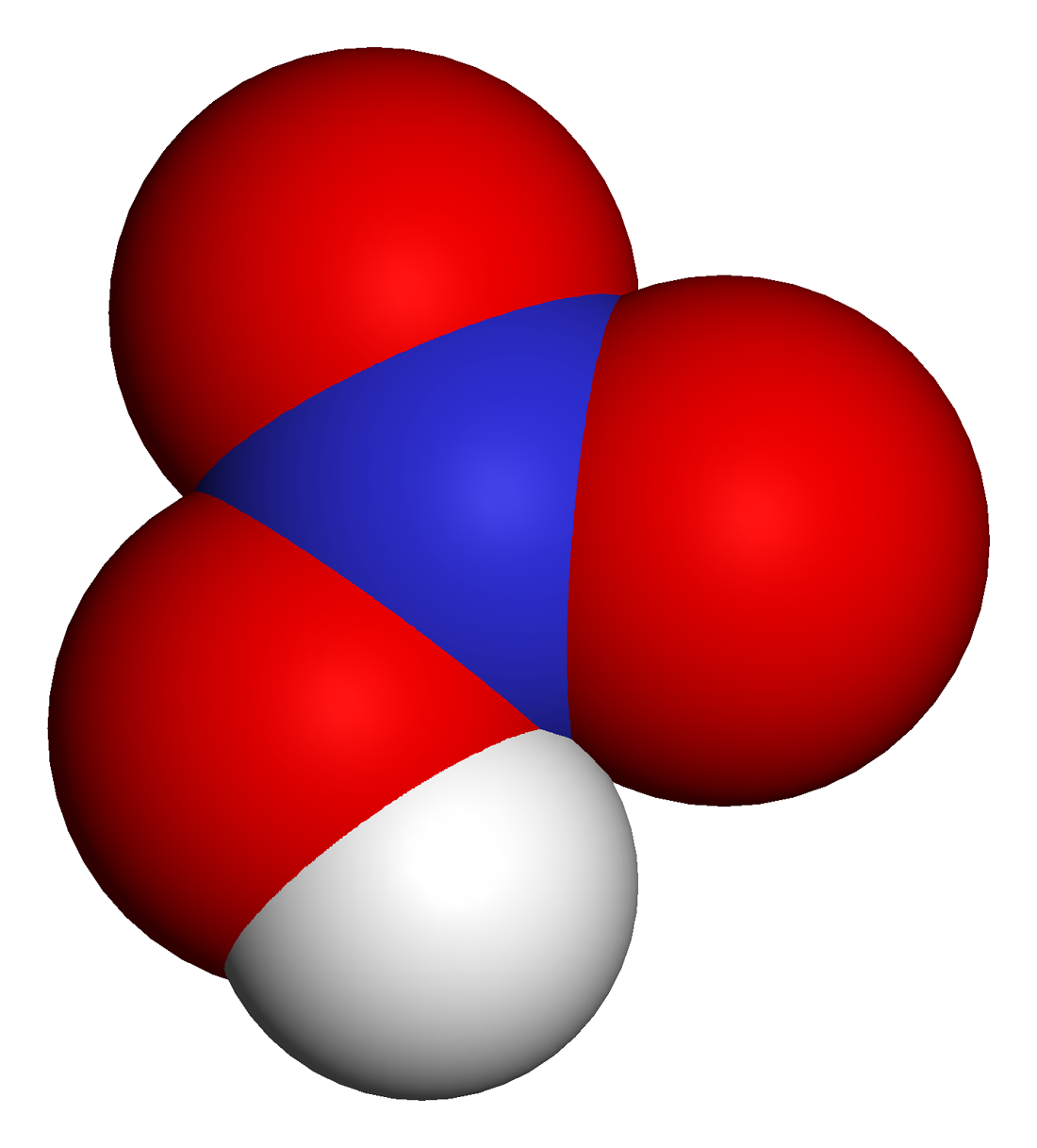 Space-filling model of the nitric acid molecule, HNO3